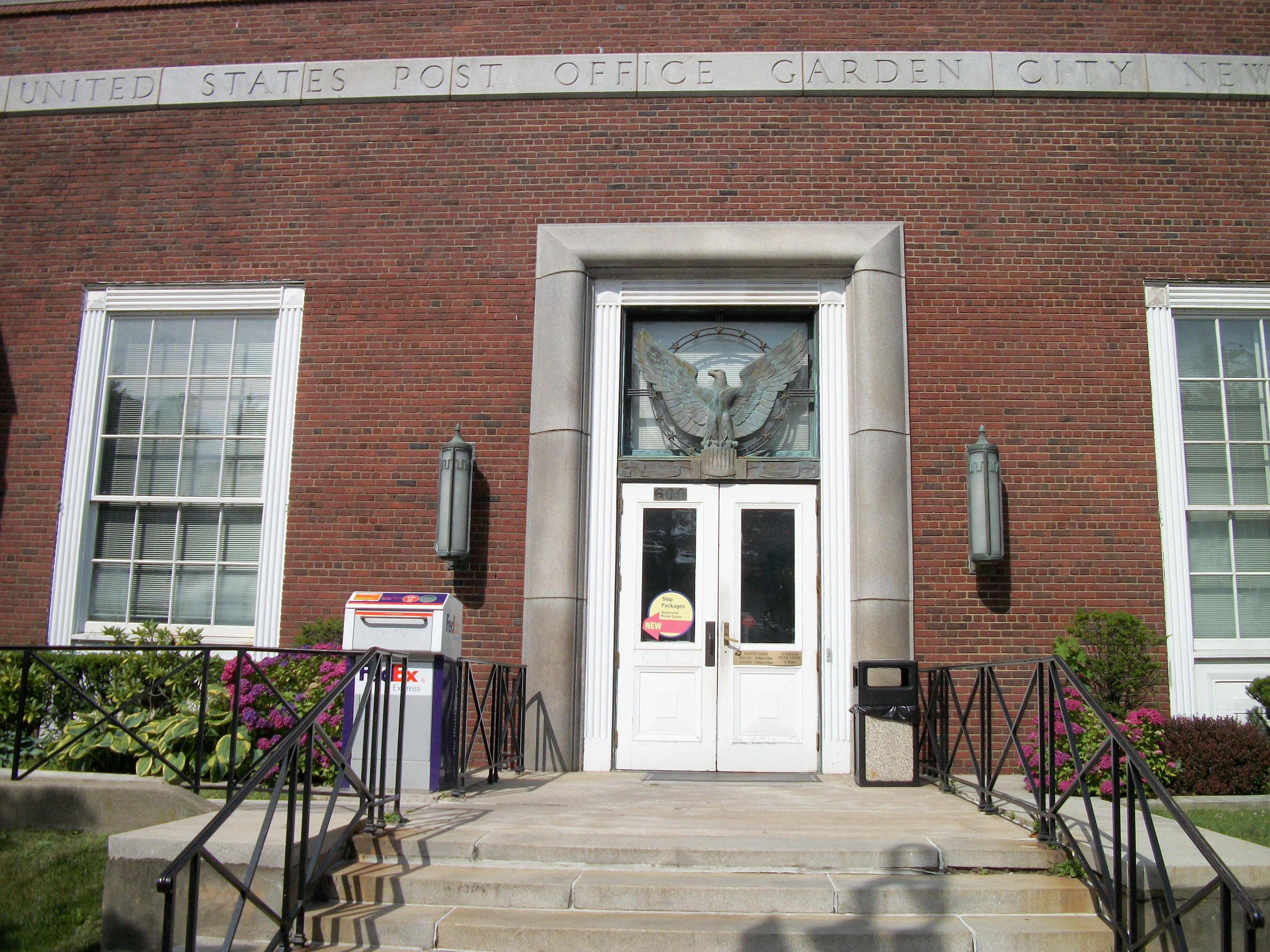 A close-up view of the front doors of the Garden City Post Office in Garden City, New York. I had four other shots of this building, but they weren't all this good.